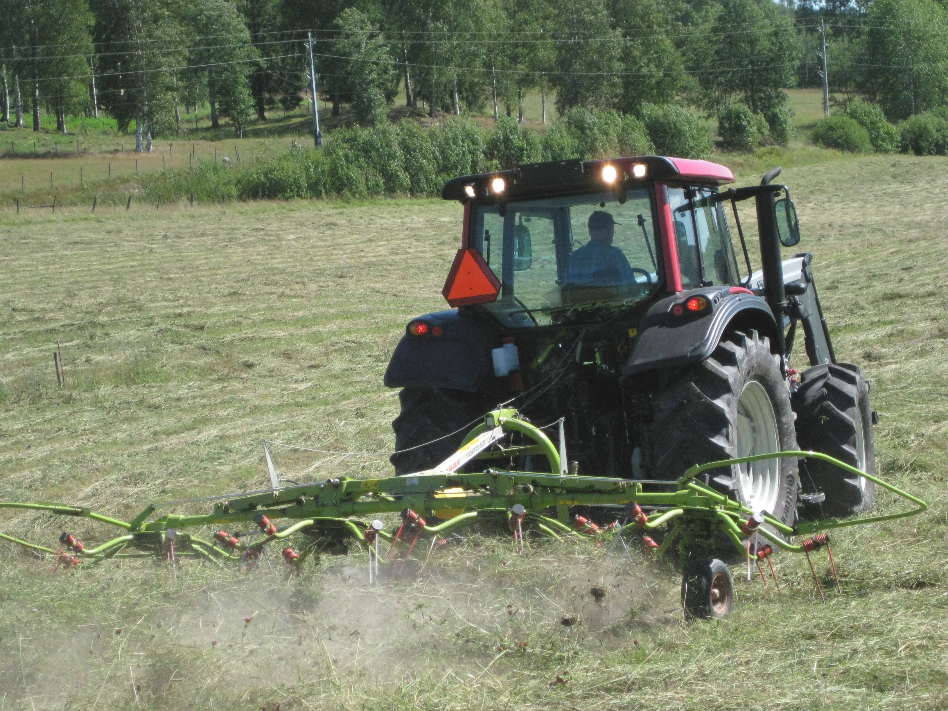 Claas Volto 52 hay tedder in action, being pulled after a Valtra N92 tractor.